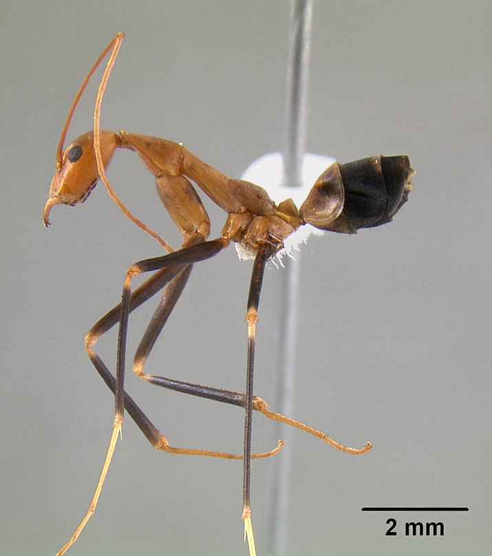 Profile view of ant Leptomyrmex darlingtoni specimen casent0012024.